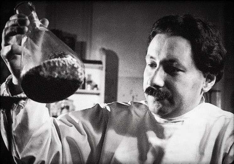 Ernst Chain, 20th century bio-scientist.